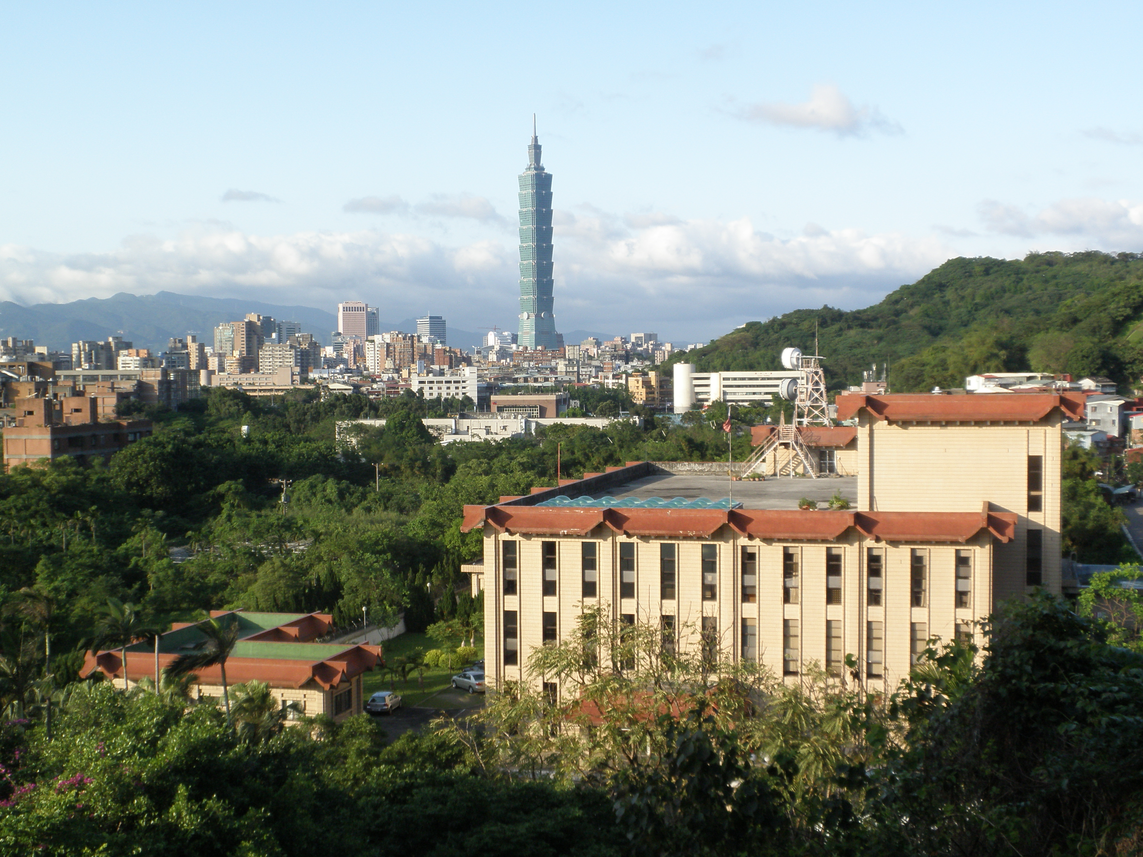 "Xiang-An (Safety Flying)" the Old Building of Taipei FIR, Taiwan Air Navigation and Weather Services (Near)